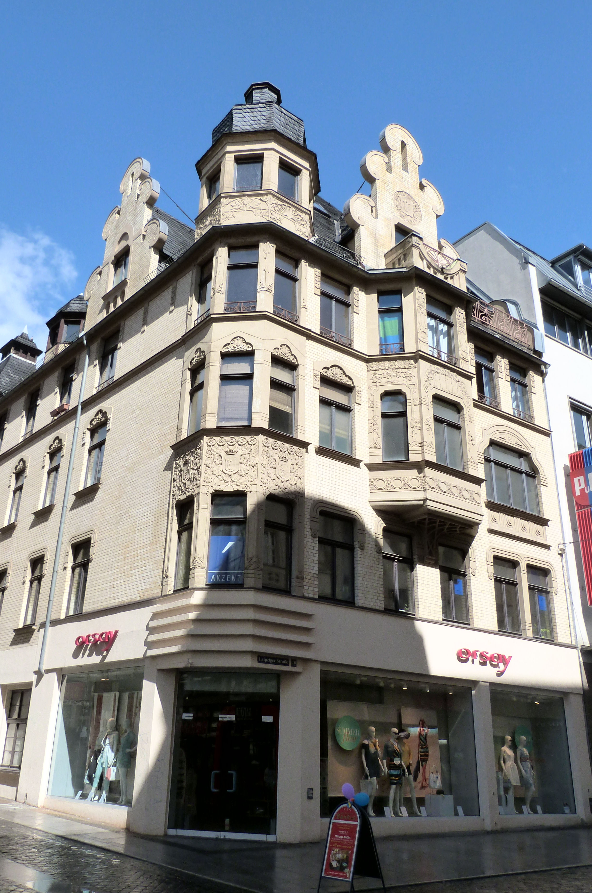 House No. 16, Leipziger Strasse, Halle (Saale)